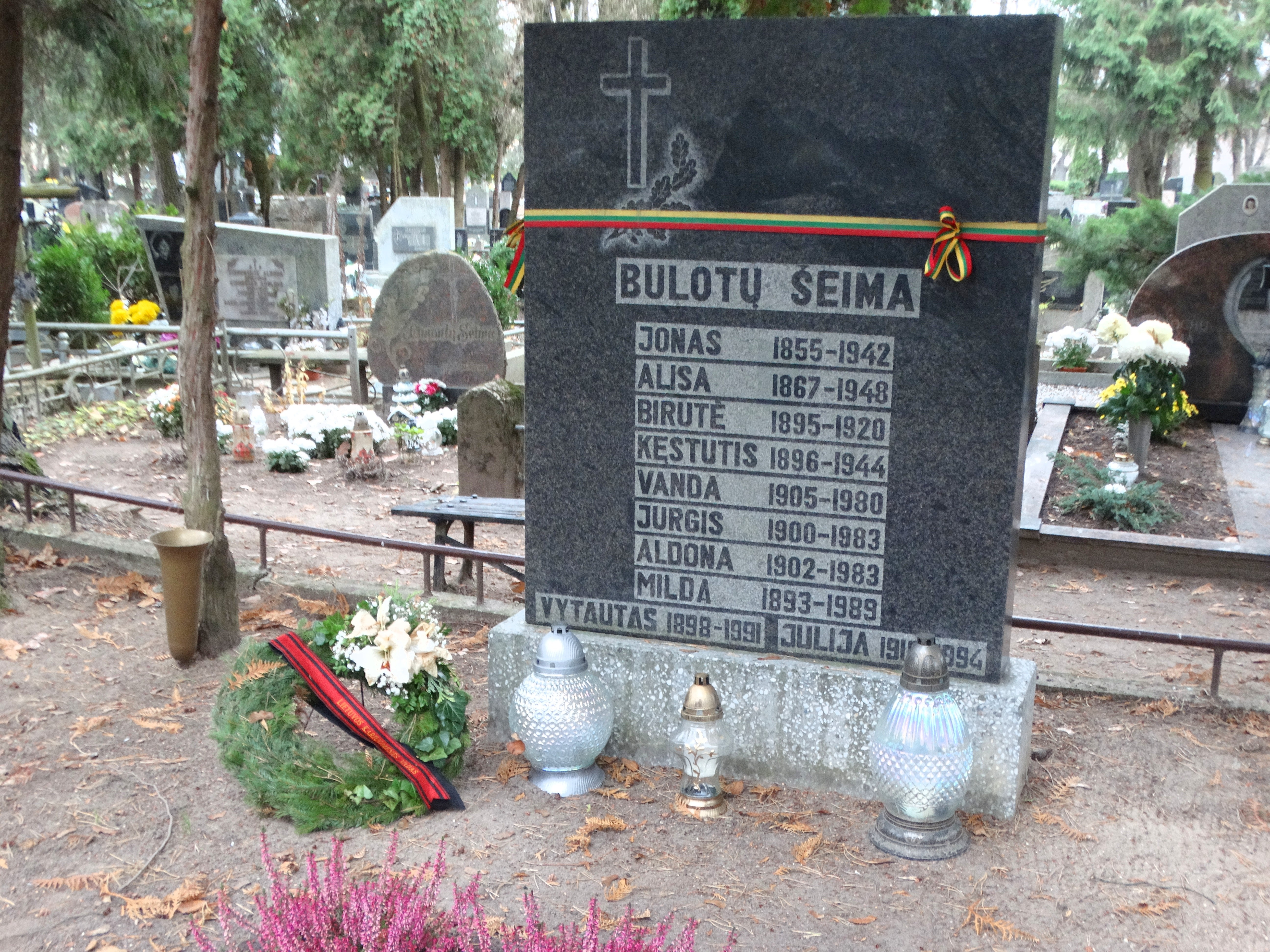 Tomb of Jonas Jurgis Bulota, Eiguliai cemetery, Lithuania